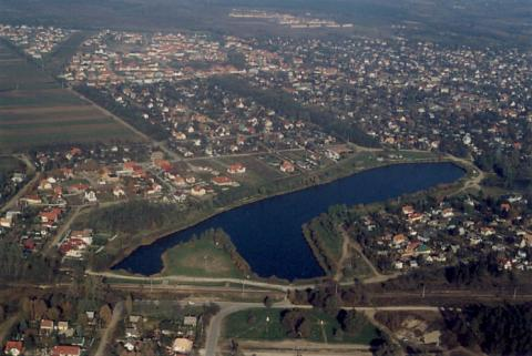 Veresegyház, Hungary, aerialphotgraphy